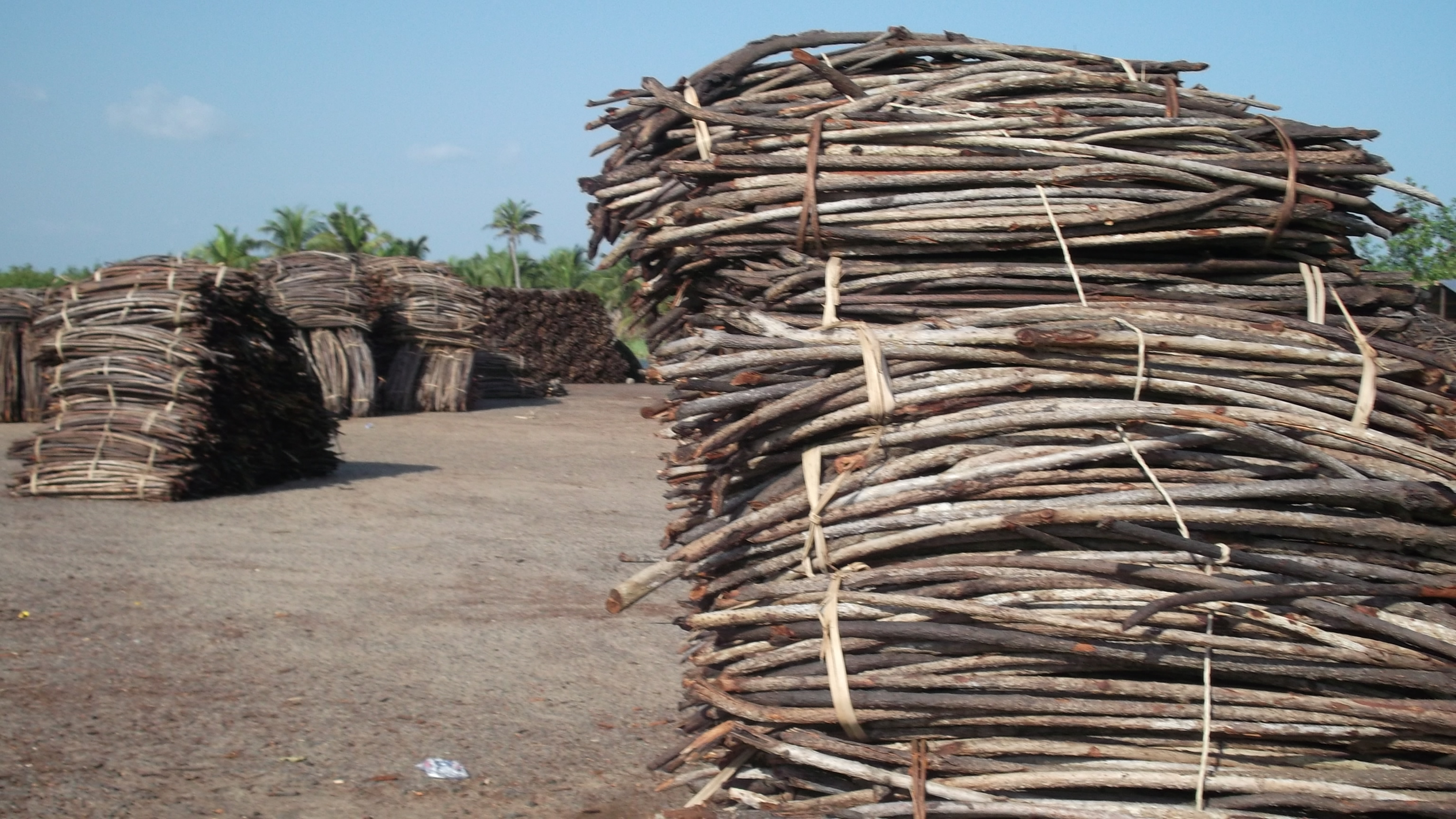 Mangrove trees are cut down for use as firewood